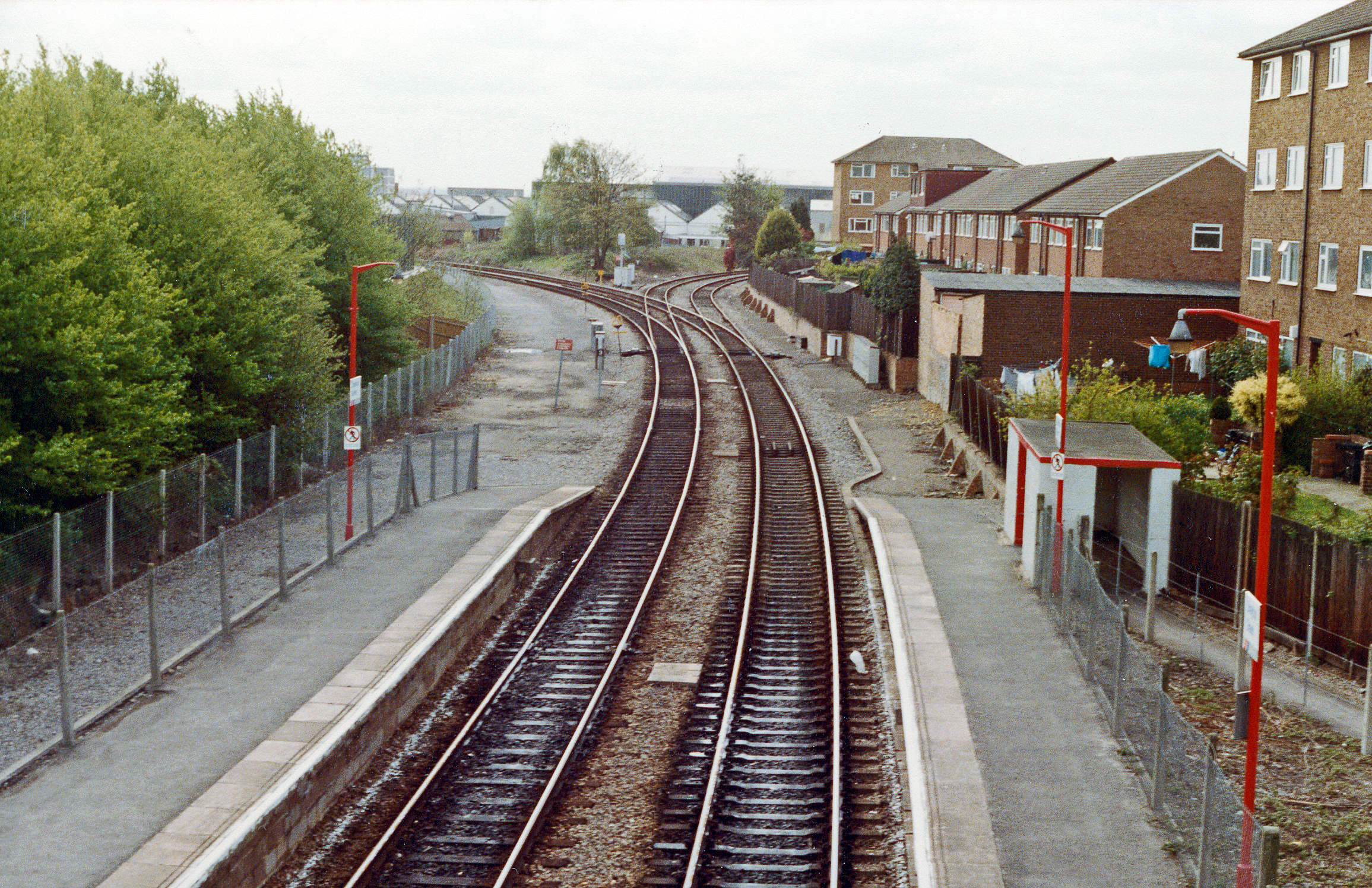 Drayton Green station, 1990. View southward, towards West Ealing (left), Hanwell (right): ex-GWR loop line, West Ealing/Hanwell - Greenford. The loop is traversed by a local service Ealing Broadway - Greenford, but is also a useful link between the Reading and North main lines for freight.